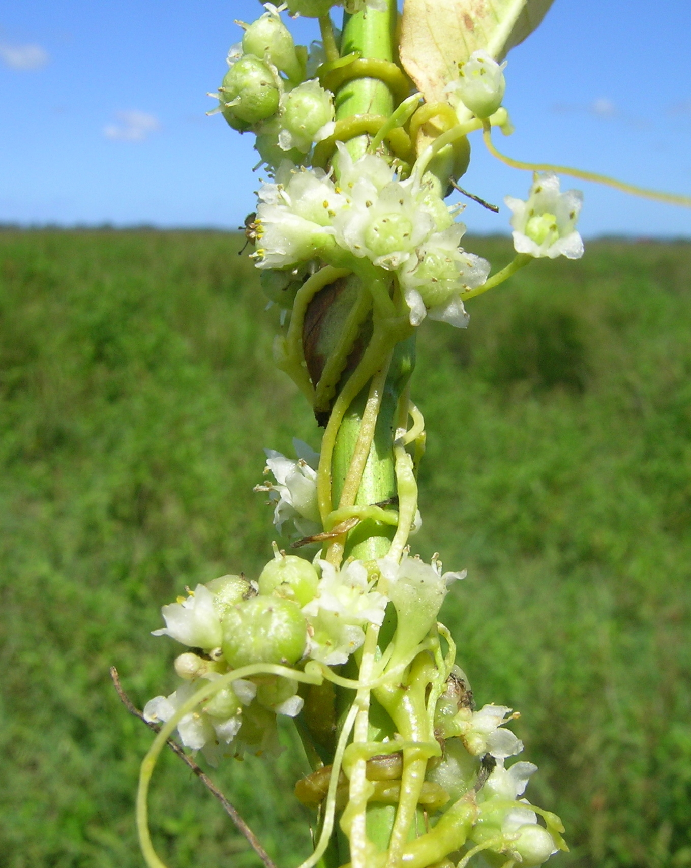 Native perennial, hairless, parasitic twiner.Stems are slender and pale yellow to brown. Flowers occur in compact clusters. Flowers are 5-merous; the calyx about 1.5 mm long and the corolla about 2 mm long, white to creamy and with obtuse lobes. Parasitic on native and introduced forbs.